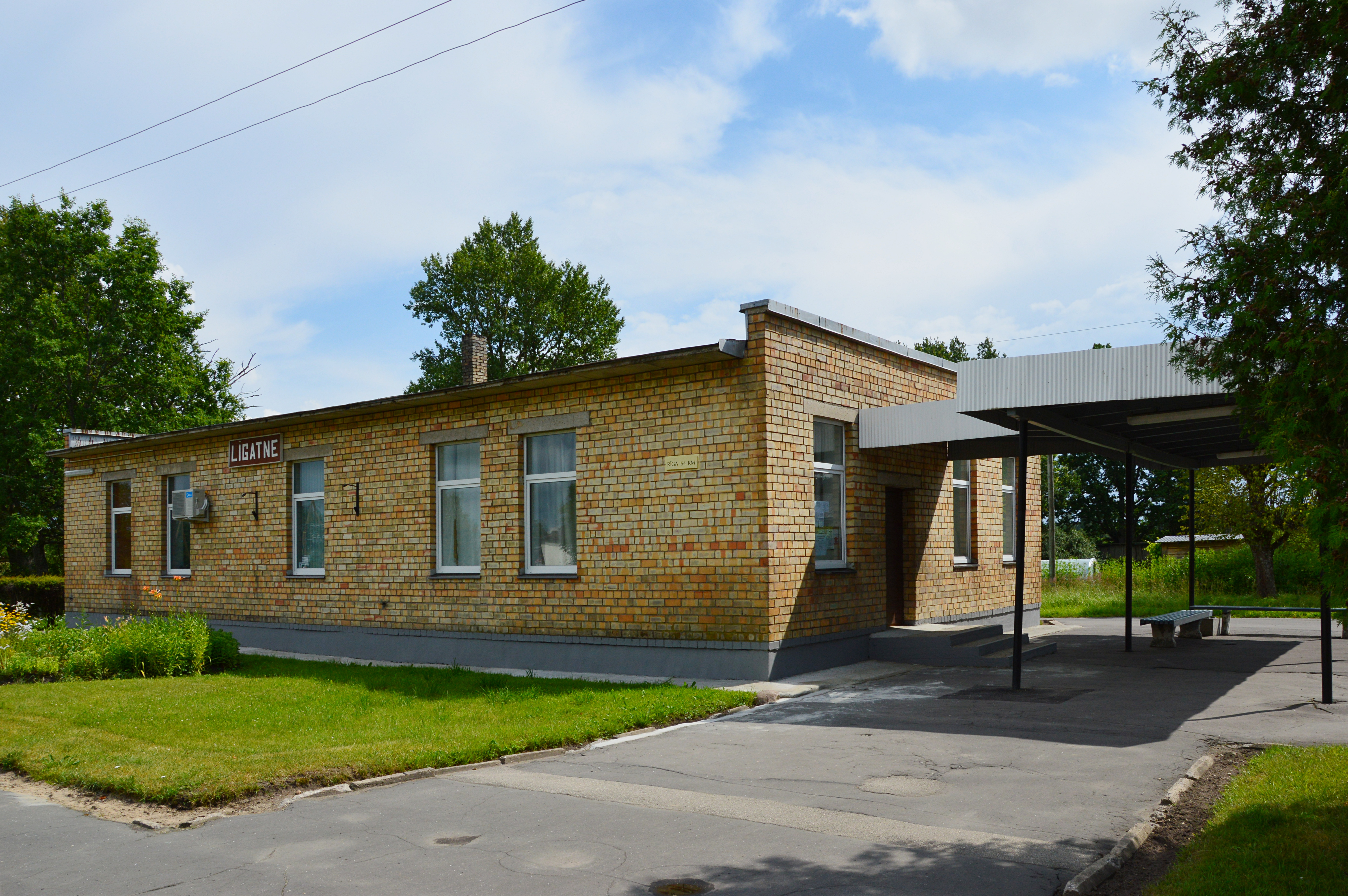 Līgatne railway station, Latvia